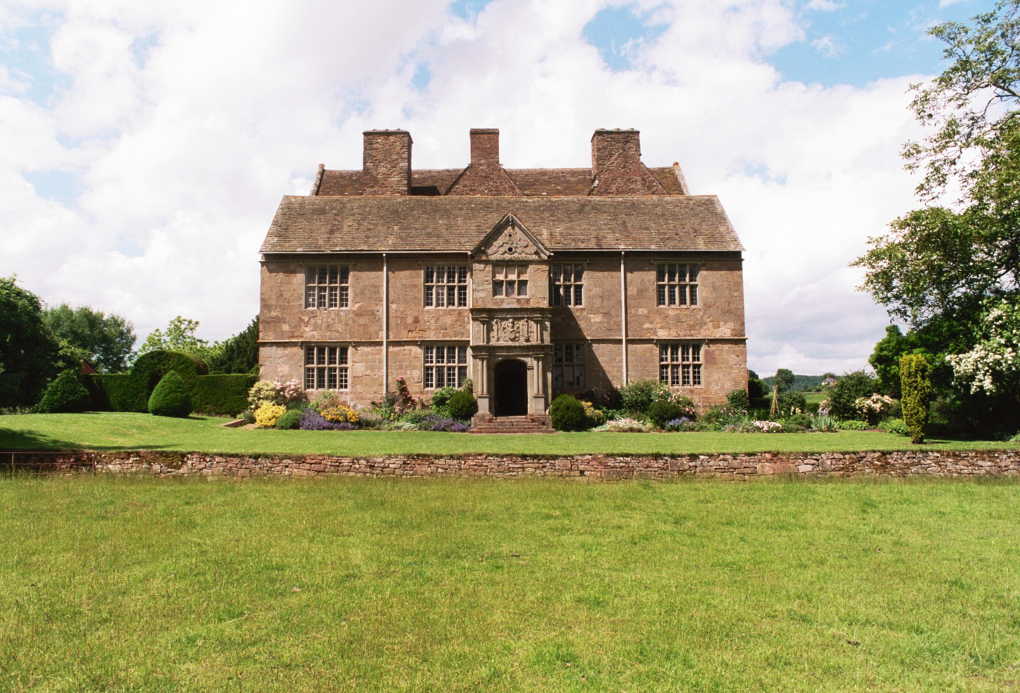 Front view, from beyond the ha-ha. Treowen is a 17th century mansion between Monmouth and Raglan in south-east Wales. It was the location for my cousin Dan's wedding a few weeks ago. The ceremony – a humanist celebration – took place on the porch that you can see here with the guests on the lawn in front. The weather held. See where this picture was taken. [?]